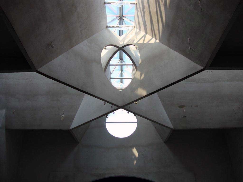 Dubrave monastery